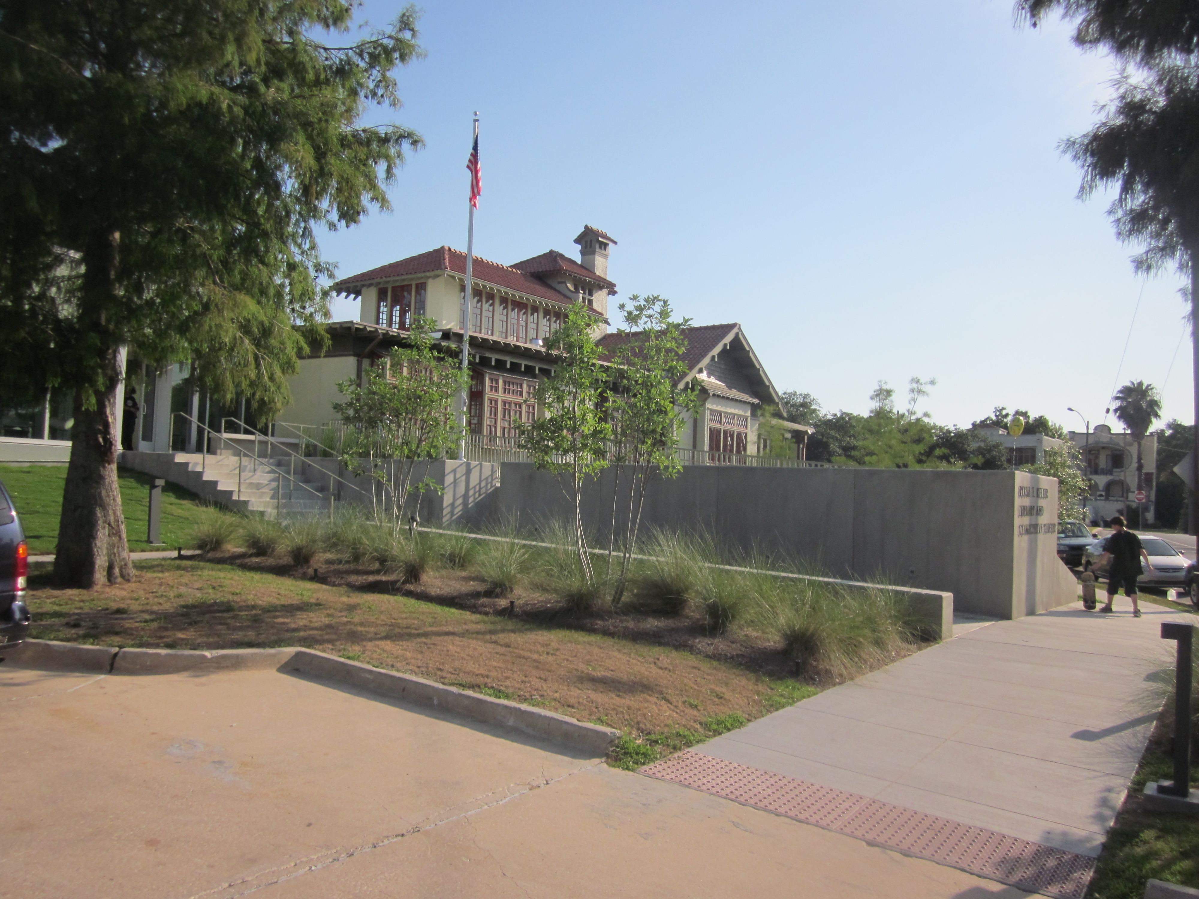 New Orleans: Recently opened new Rosa Keller Branch Library & Community Center in the Broadmoor district, replacing a previous library building demolished after damage from Hurricane Katrina levee failure flood disaster. Open for "Art Moor" event with art, live music, and refreshments. Exterior view.